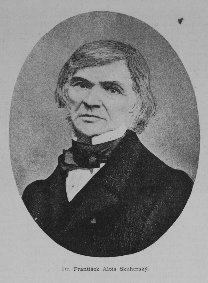 Portrait of František Alois Skuherský (1794-1864), Czech physician, philantrophist and organizer of local culture in Opočno